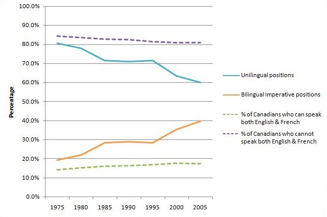 Chart showing language requirements of positions in the public service of Canada 1989-2007.